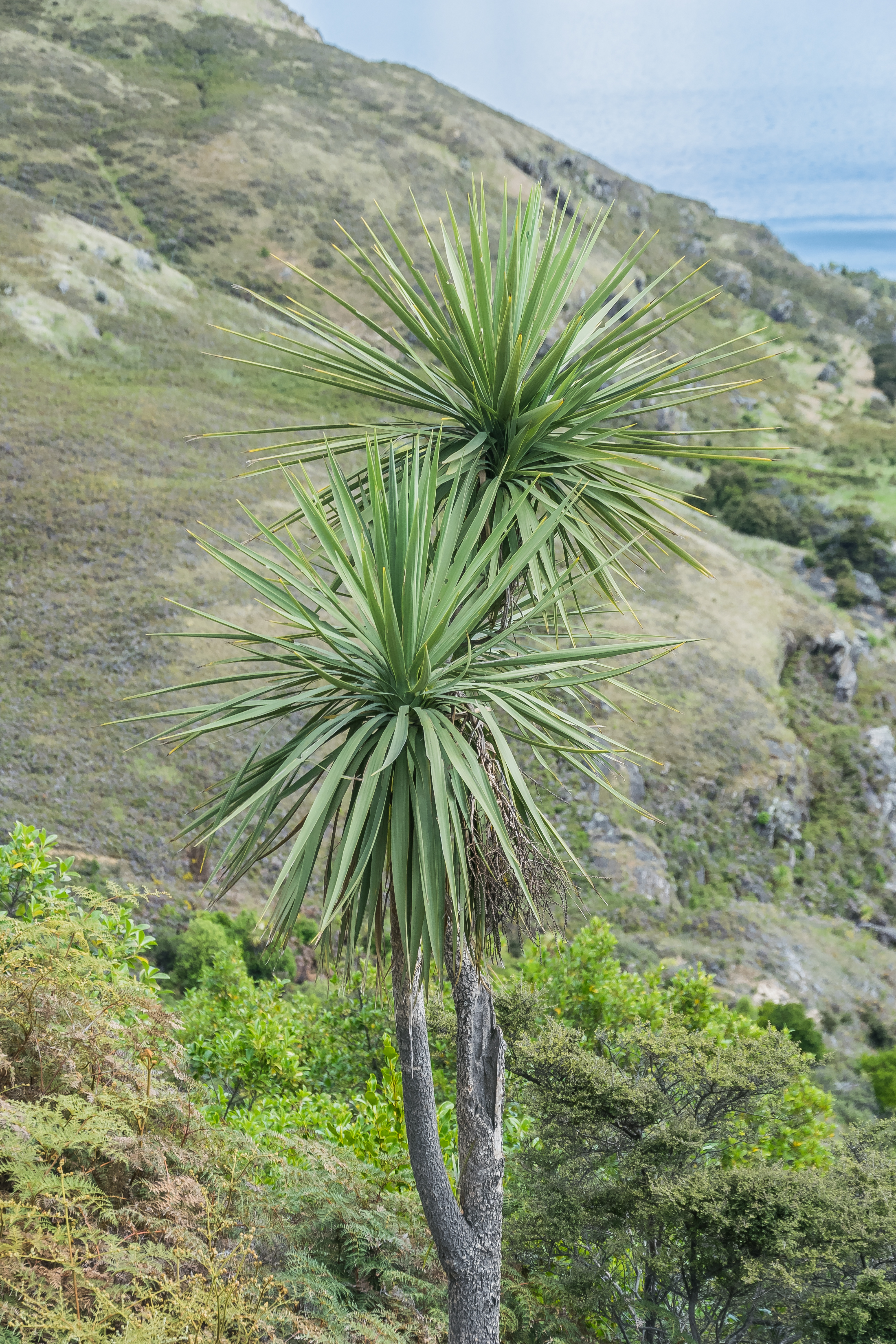 Cordyline australis near Lake Wanaka in Otago Region, South Island of New Zealand